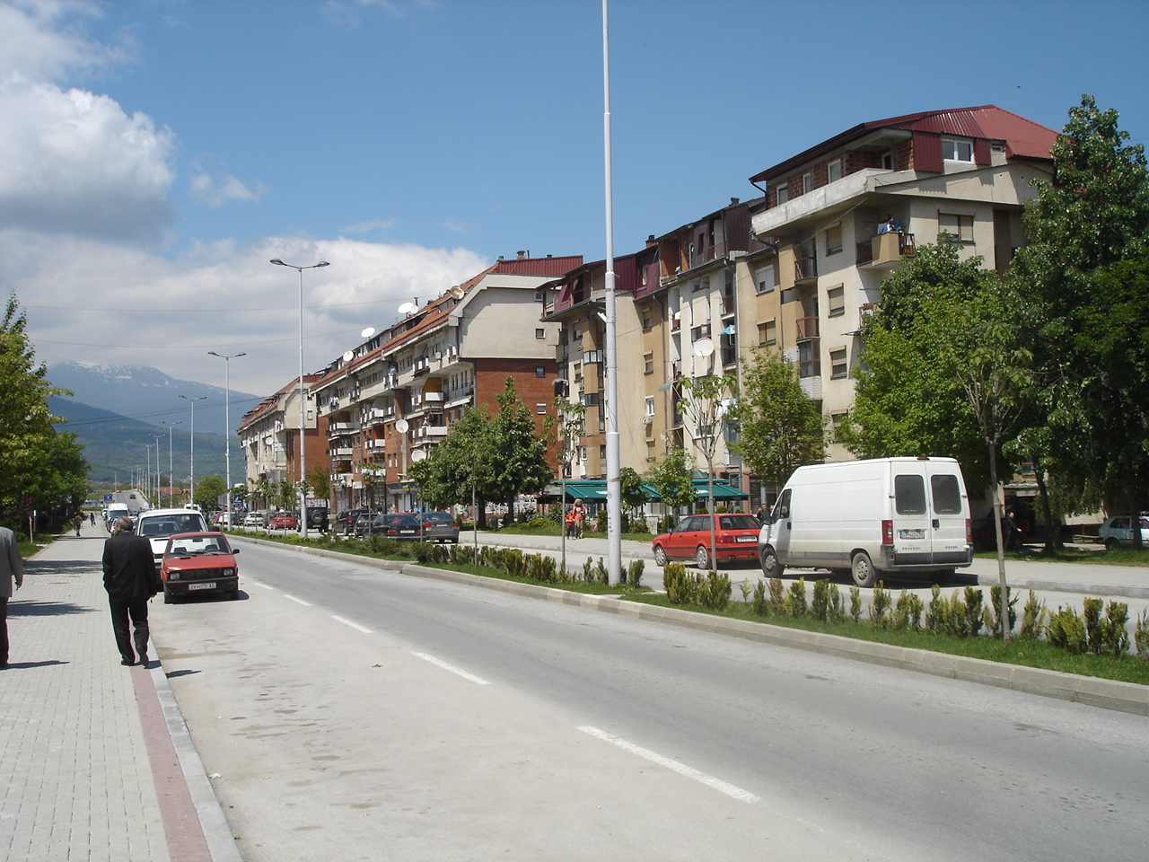 Meleardi neighborhood in Gostivar, Macedonia